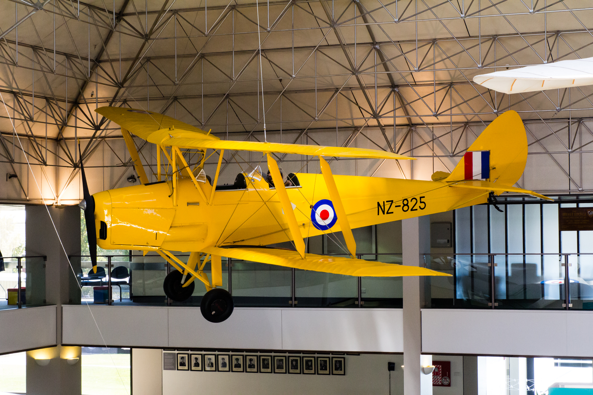 De Havilland DH 82A Tiger Moth at the Air Force Museum of New Zealand in Christchurch